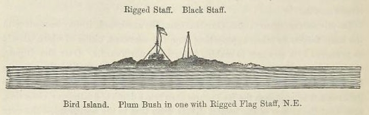 Bird Island is the southern most of four small islands lying on the extensive bank formed between the mouths of the rivers Joombas and Gambia, and is (or was) distinguished by two staffs — one rigged and the other not. Its south end is 9 miles N.N.E. from cape St. Mary, and nearly 2 miles from the shore of the main, thence it trends north-east ward towards the other islands and the coast.